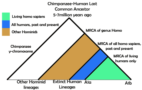 simplified human phylogenetic tree